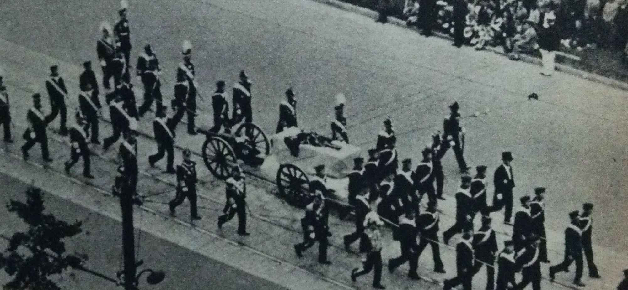 State funeral of Admiral Togo Heihachiro (June 5, 1934).